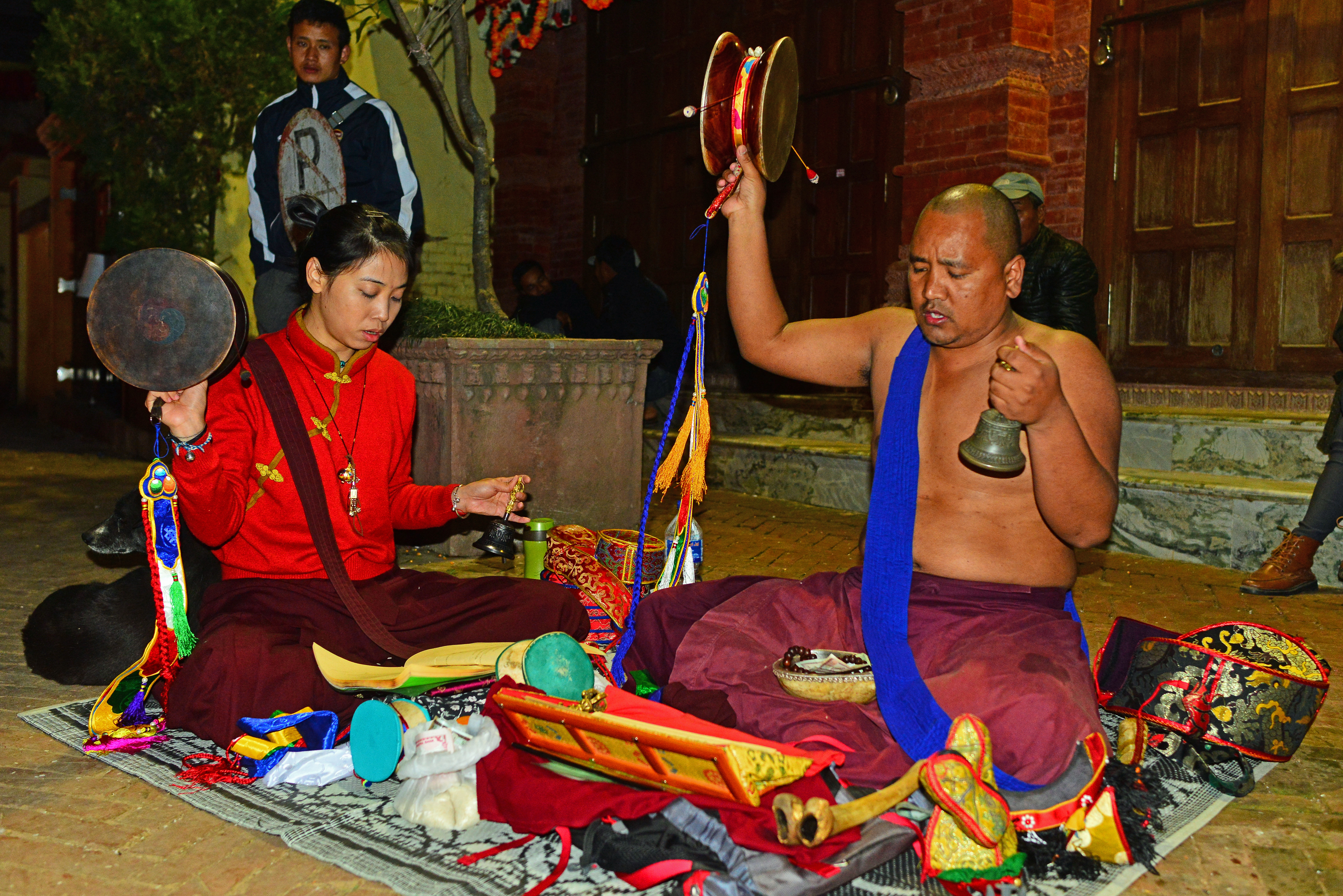 Chöd practitioners at Boudhanath stupa November 2015